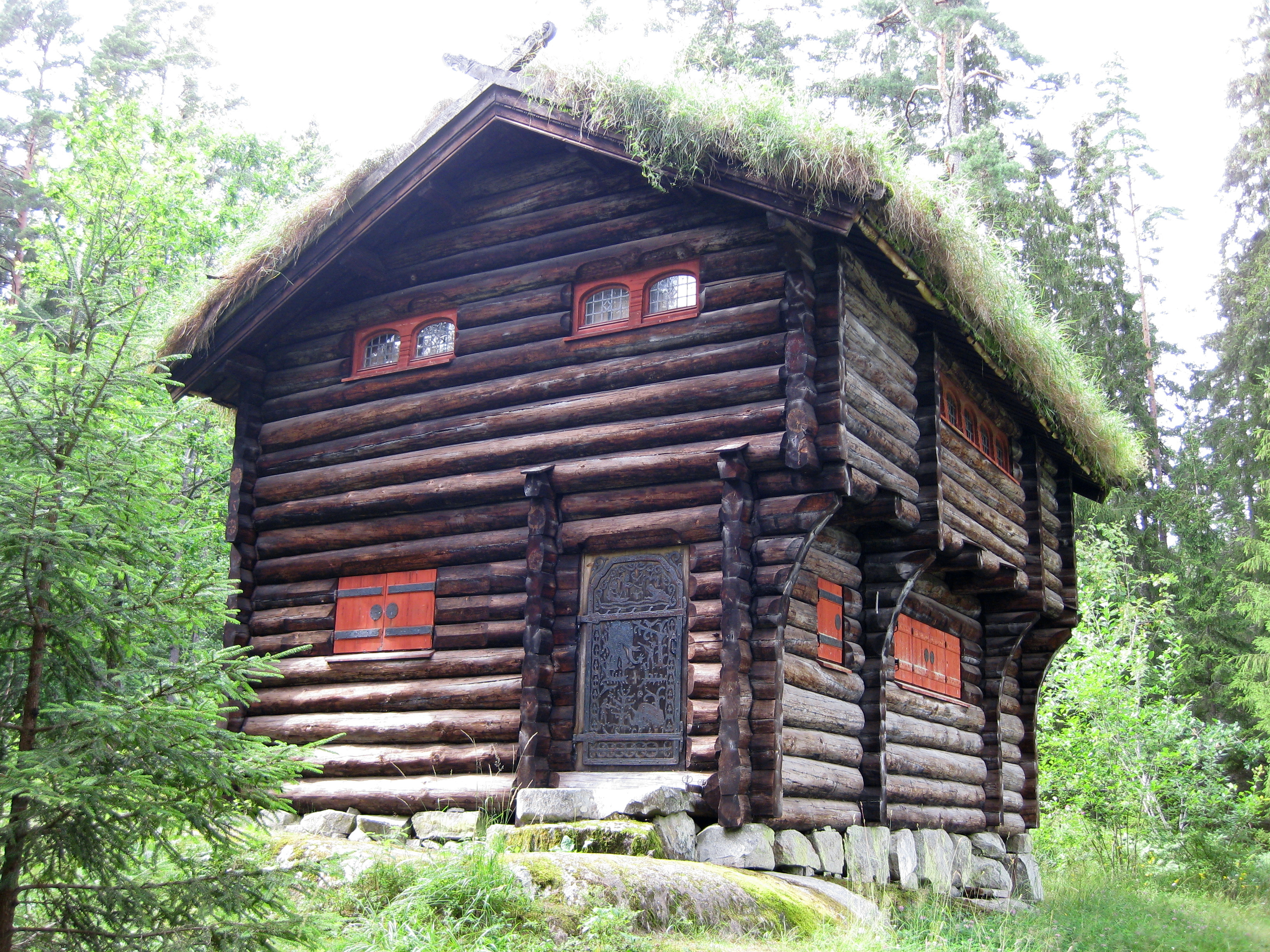 Hunting cabin built by Eric von Rosen 1909 near Sparreholm, Sweden